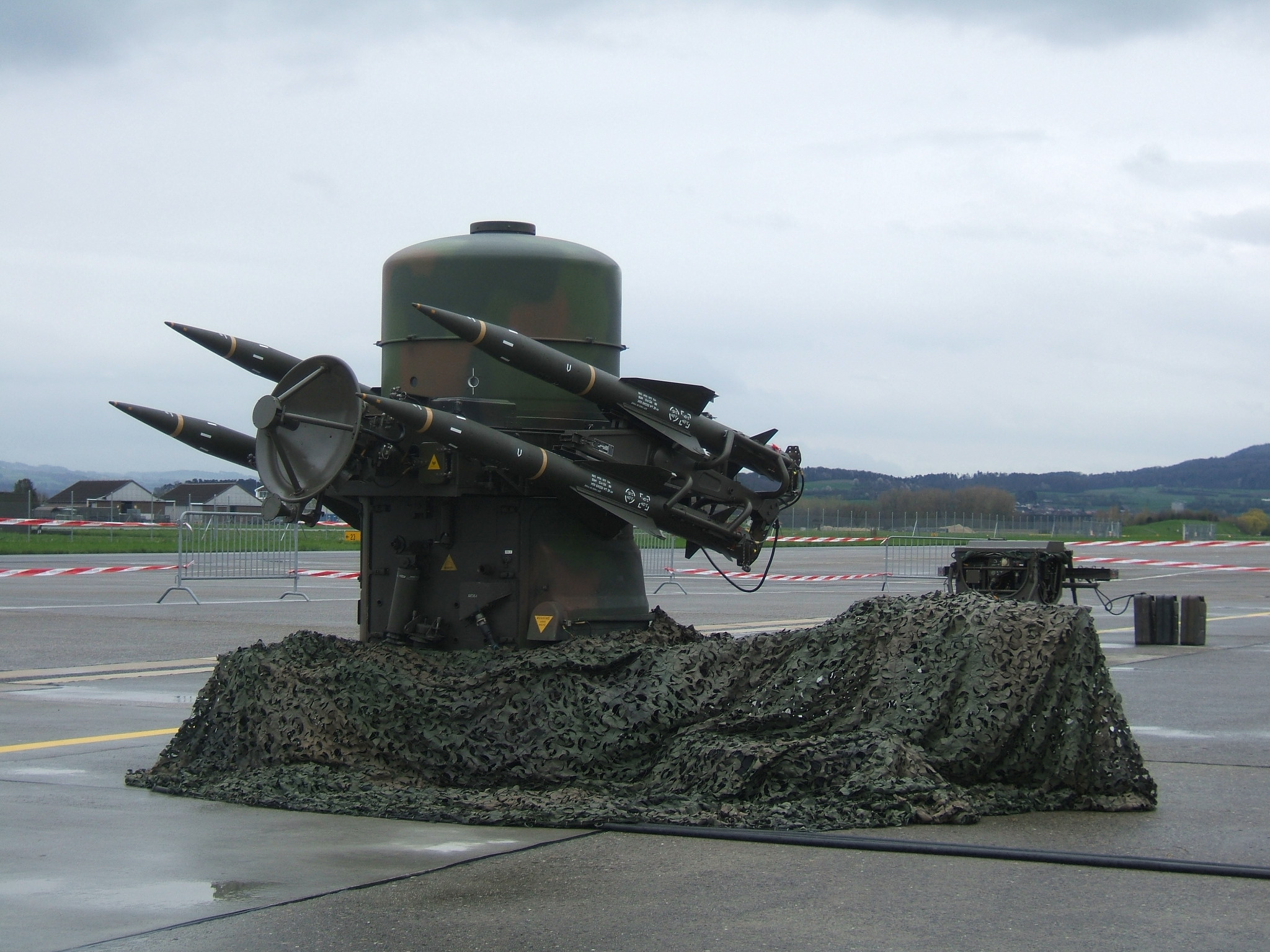 A Swiss Air Force Rapier surface-to-air anti-aircraft missile system launcher, Payerne Air Base.